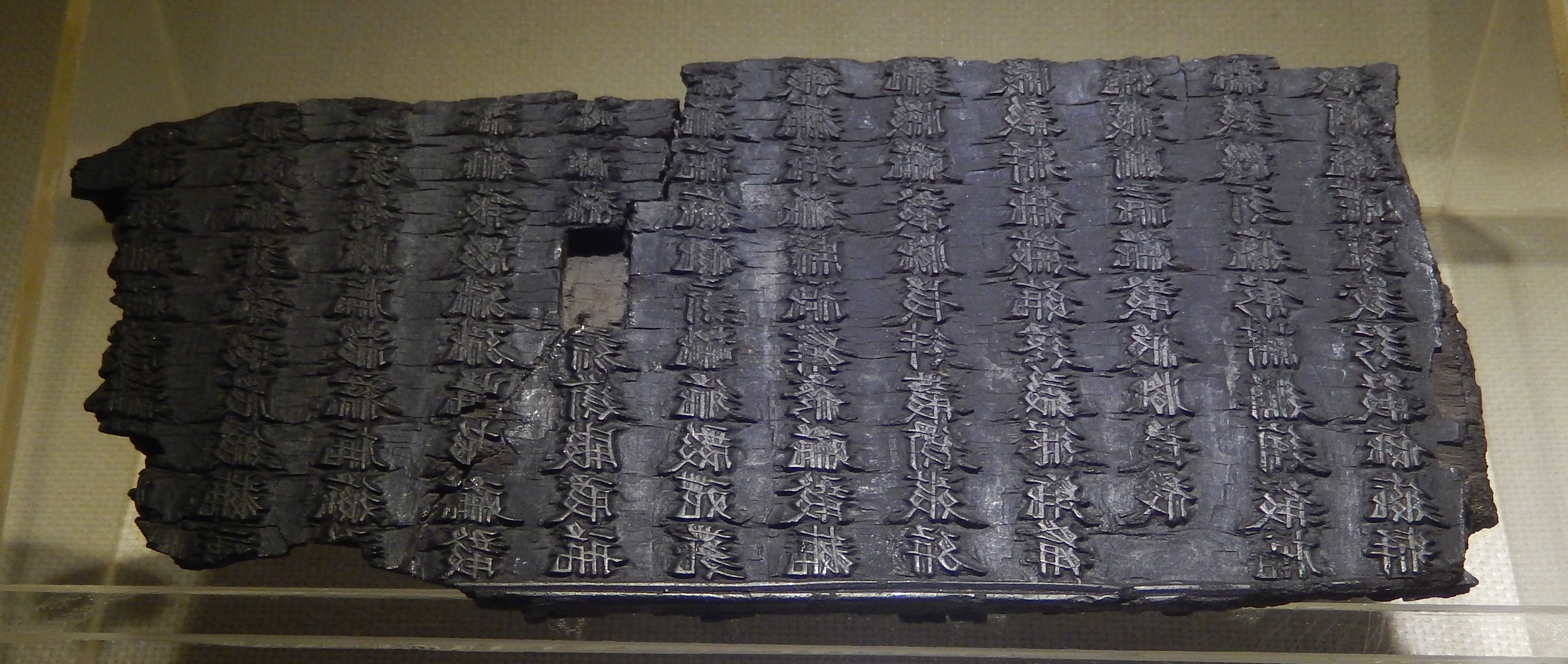 Piece of a Western Xia (1038–1277) wooden printing block for a Buddhist text written in Tangut script. Discovered in 1990 in the Hongfo Pagoda at Helan County, Ningxia. Held at the Ningxia Museum, Yinchuan. The text of this block covers part of vol. 5 of the Tangut translation of the Shì móhēyǎn lùn 釋摩訶衍論 (attributed to Nāgārjuna, but only extant in Chinese). Each column on this woodblock has up to 11 Tangut characters, but based on a comparison of the Tangut text with the corresponding Chinese text, the length of the columns in the complete woodblock would have been twice as long, i.e. this piece represents the lower half of a complete woodblock. This is believed to be the oldest surviving text woodblock in China. Catalogue no. N12-019.